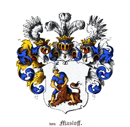 Coat of Arms of family Masloff